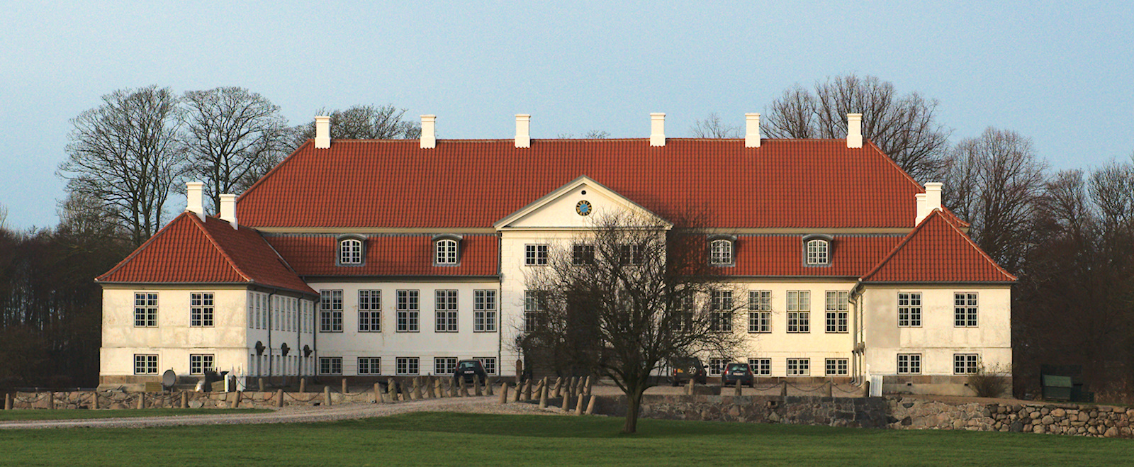 Hverringe farm (front side)